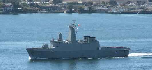 Mexican Navy Durango-class patrol vessel ARM Durango in San Diego Harbor.